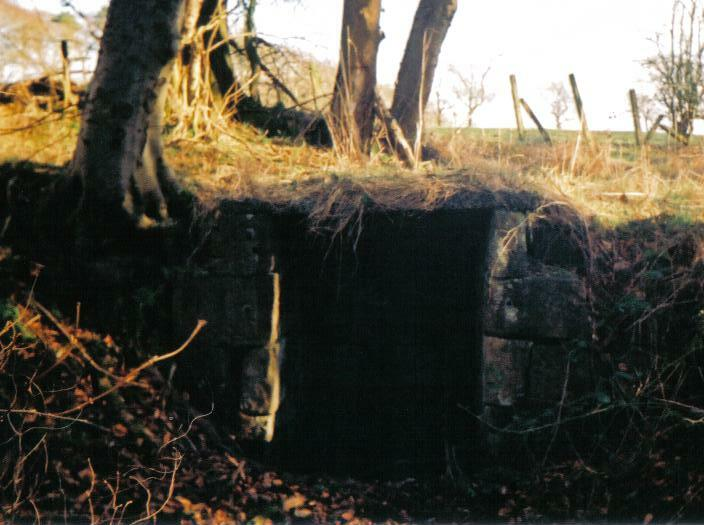 A photograph of the Lady's Well in Kilmaurs, East Ayrshire.